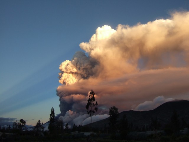 A photo of Tungurahua taken on July 14th, 2006 from Salasaca by Gabriel Many. This was a major explosion, though much smaller than the explosions on August 16th.